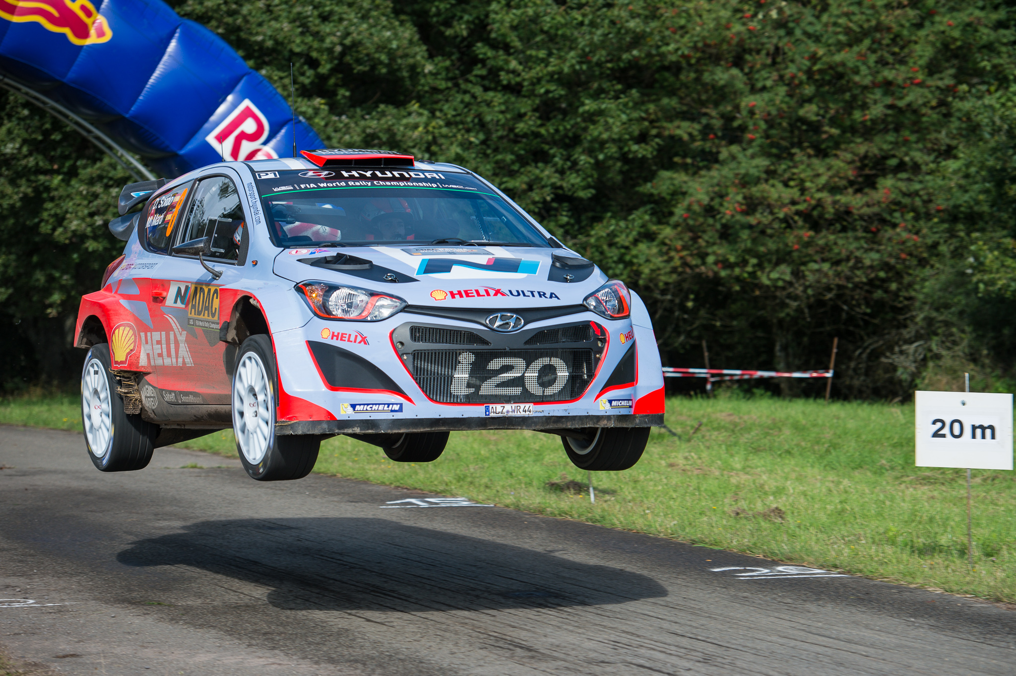 ADAC Rallye Deutschland 2014,Dani Sordo,FIA,FIA World Rally Championship,Gina,Hyundai Motorsport,Hyundai i20 WRC,Marc Marti,Motorsport,Panzerplatte,Rally,Rallye,SS10,WP10,WRC